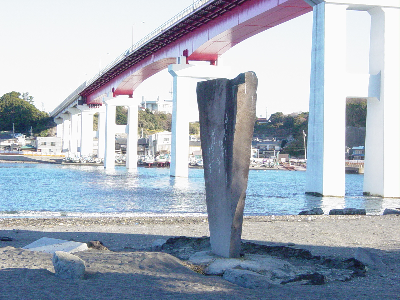 This picture has been take in Jougashima kanagawa Japan at Jan 2007.